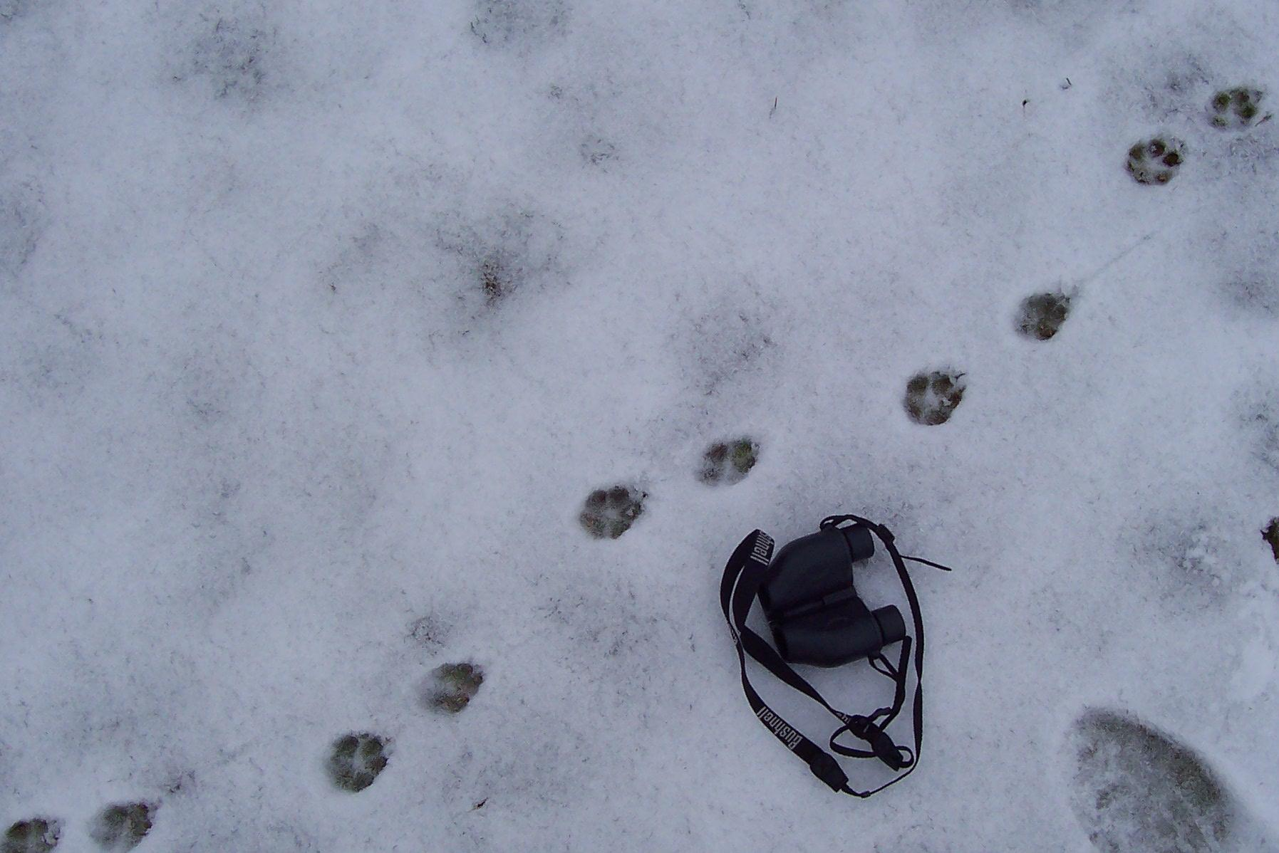 Track of Vulpes Vulpes in the snow